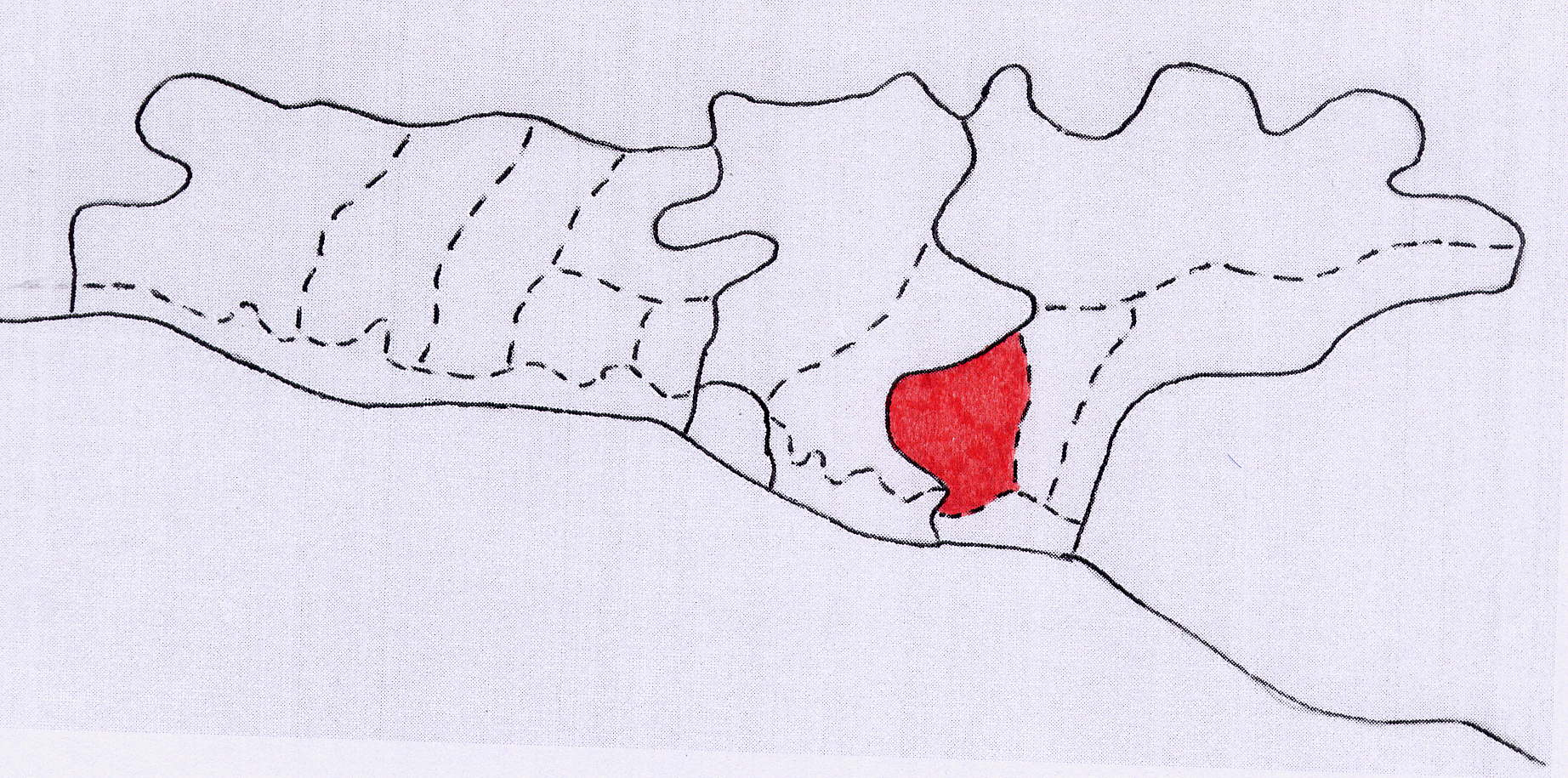 Kudepsta rural okrug in Sochi City Unit, Krasnodar Krai, Russia.